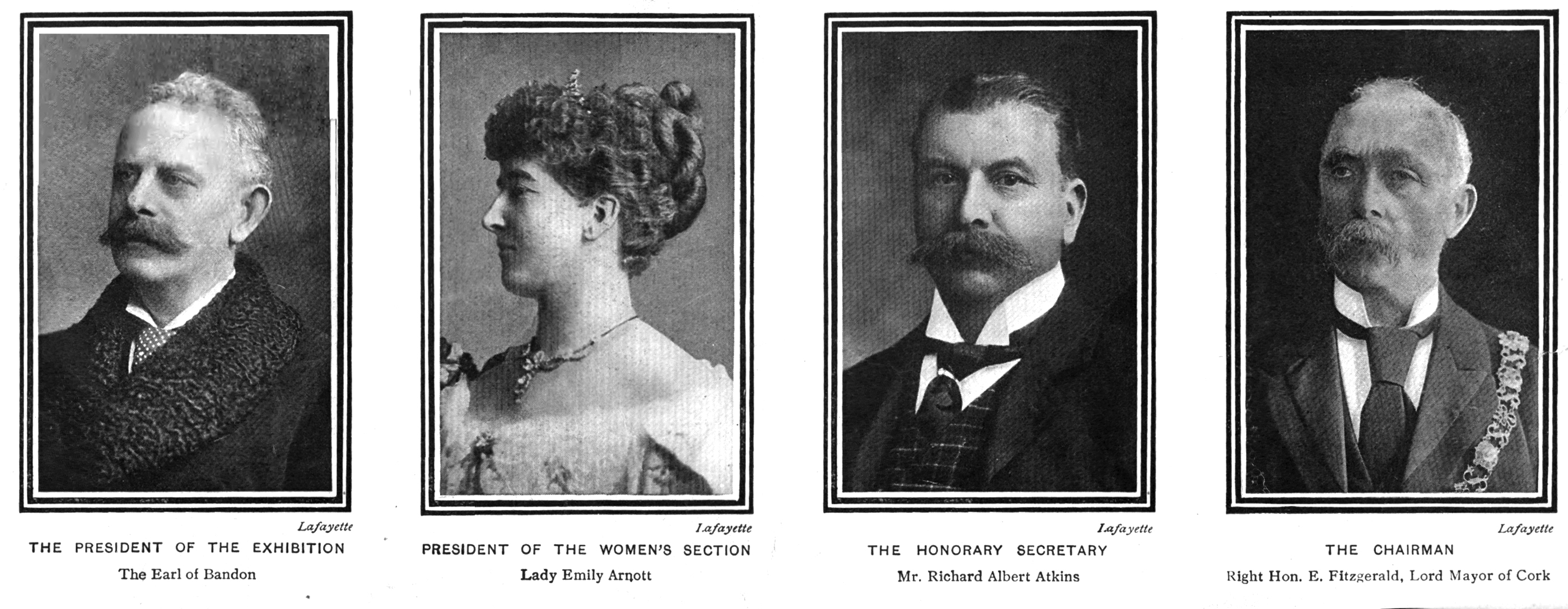 Left to Right: THE PRESIDENT OF THE EXHIBITION The Earl of Bandon PRESIDENT OF THE WOMEN'S SECTION Lady Emily Arnott THE HONORARY SECRETARY Mr. Richard Albert Atkins THE CHAIRMAN The Right Honourable Edward Fitzgerald, Lord Mayor of Cork Cork International Exhibition. Cropped from a torn newspaper than I scanned, not much context as it's torn badly and I can't see the name or anything. It may not even be a paper could be from some kind of Pamphlet, I can't see a name. Date is the 10th of May 1902